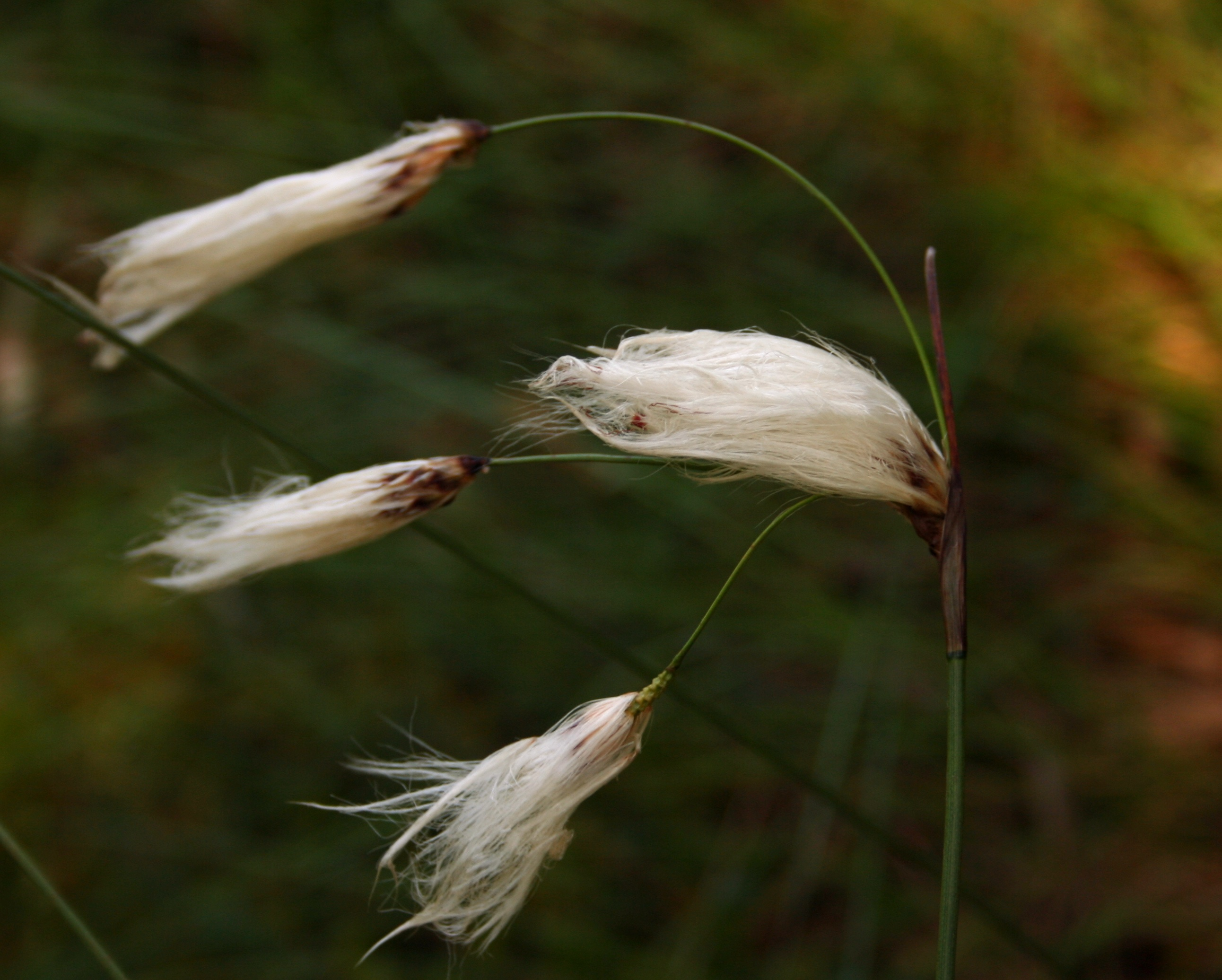 The Cottongrass (Eriophorum angustifolium), near Boronów, Poland